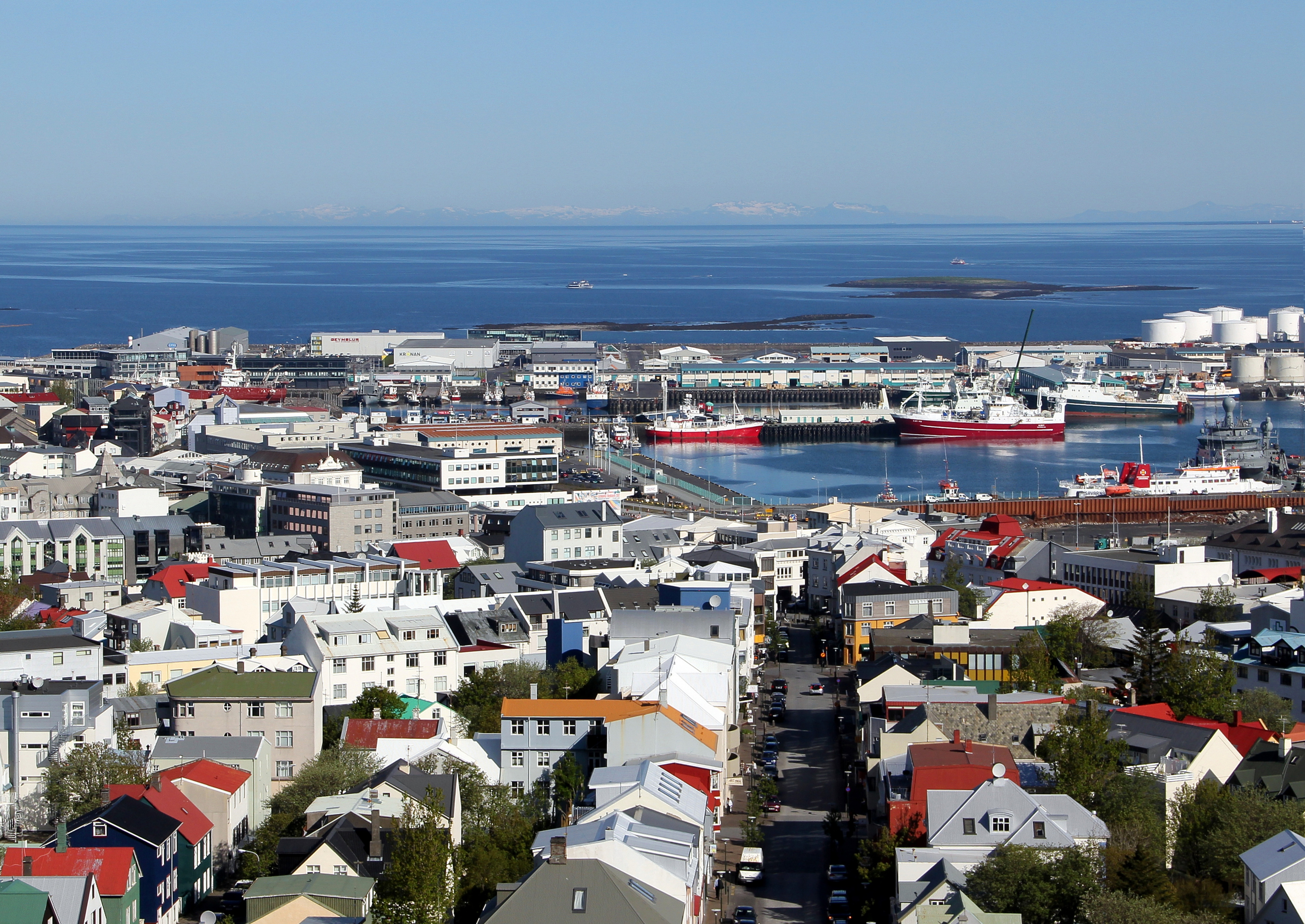 Central Reykjavík and harbour seen from Hallgrím’s church